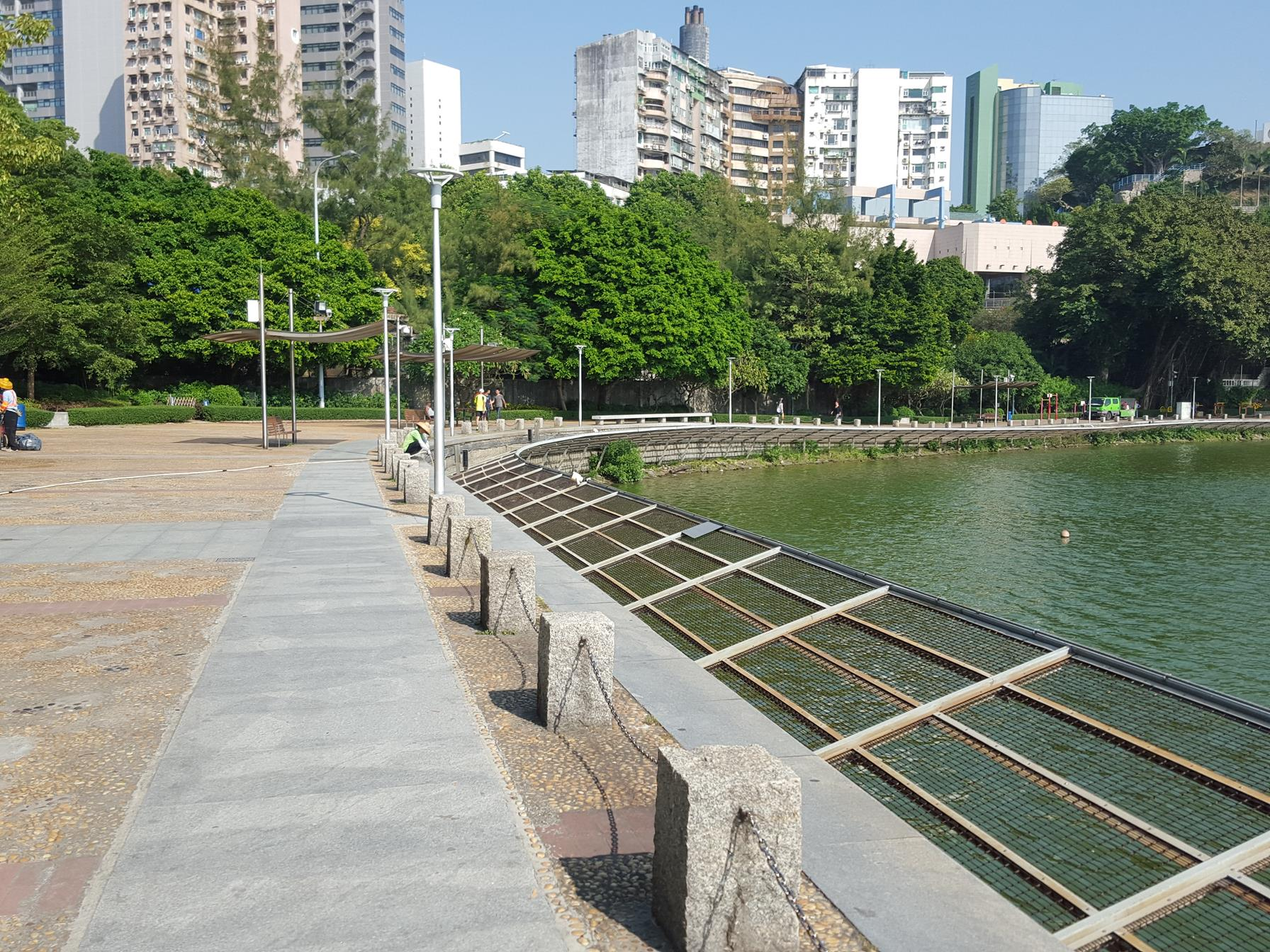 ZAPE Reservoir